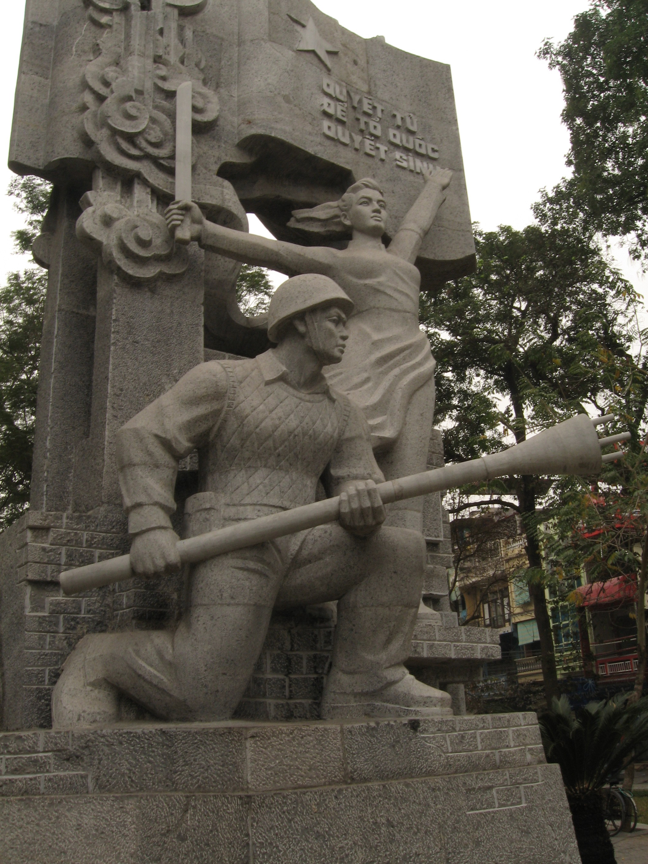 Streets of Hanoi, Vietnam